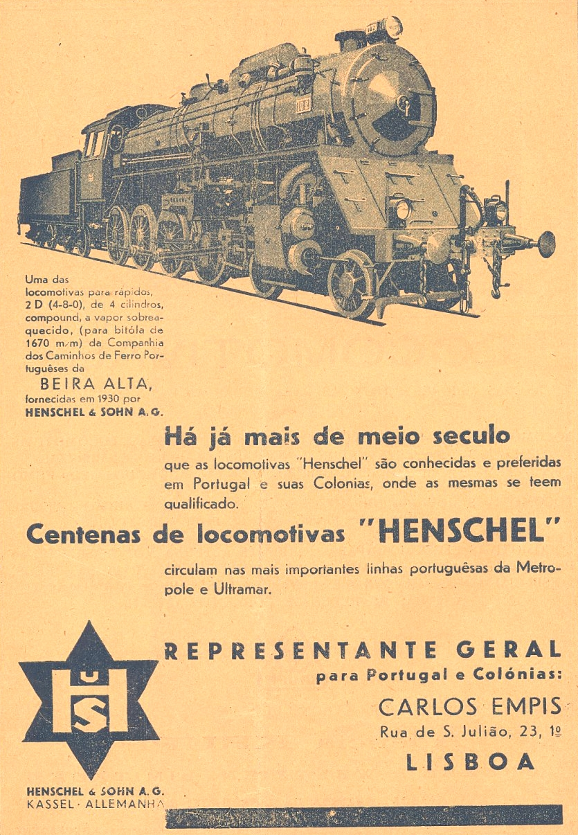 Henschel & Sohn advertisement, showing the No. 102 locomotive of the CCFPBA - Companhia dos Caminhos de Ferro Portugueses da Beira Alta (Portuguese Railways of the Beira Alta). This photograph was originally published in the Gazeta dos Caminhos de Ferro No. 1067, of the 1st June 1932, and scanned by the Hemeroteca Municipal de Lisboa.